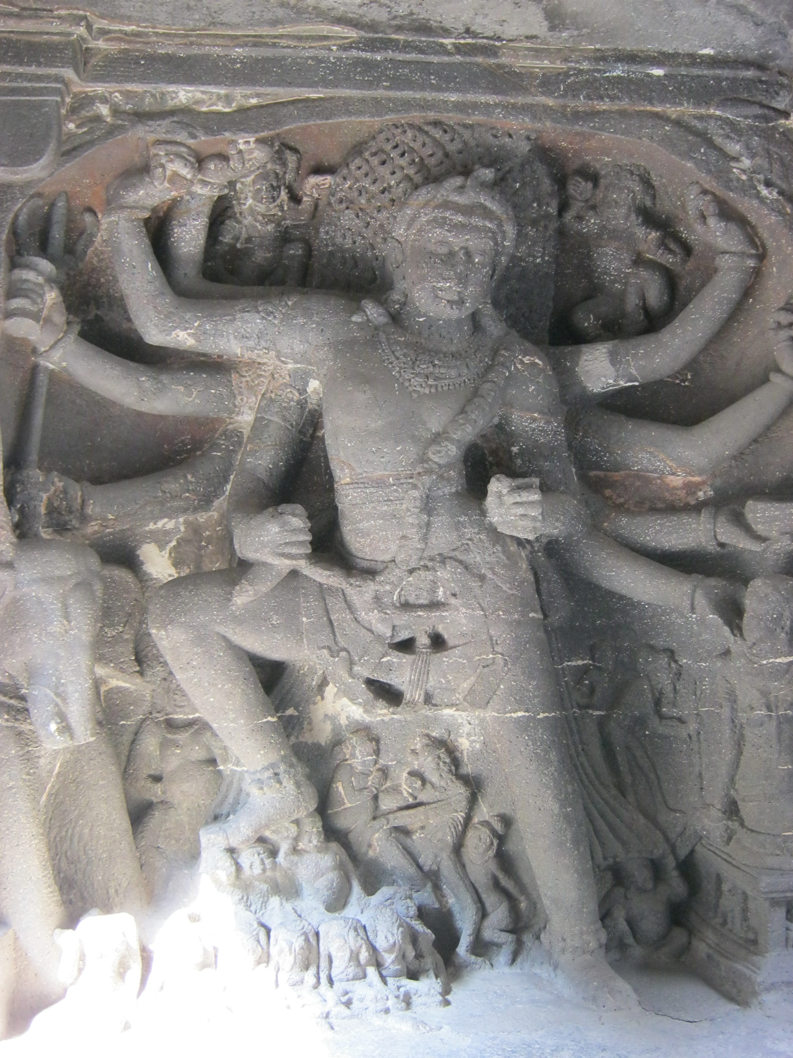 சிவபெருமான் நடனம்